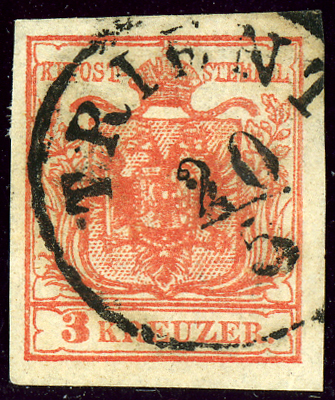 Austrian KK 3 kreuzer stamp, cancelled TRIENT, South Tyrol, Italy. Hand paper, Ferchenbauer Type IIIa.